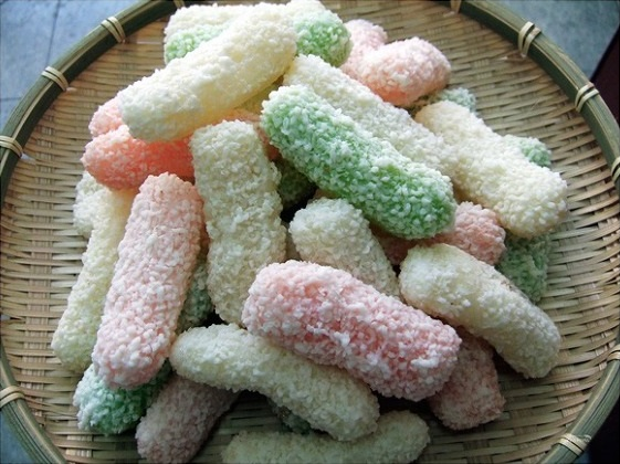 hangwa